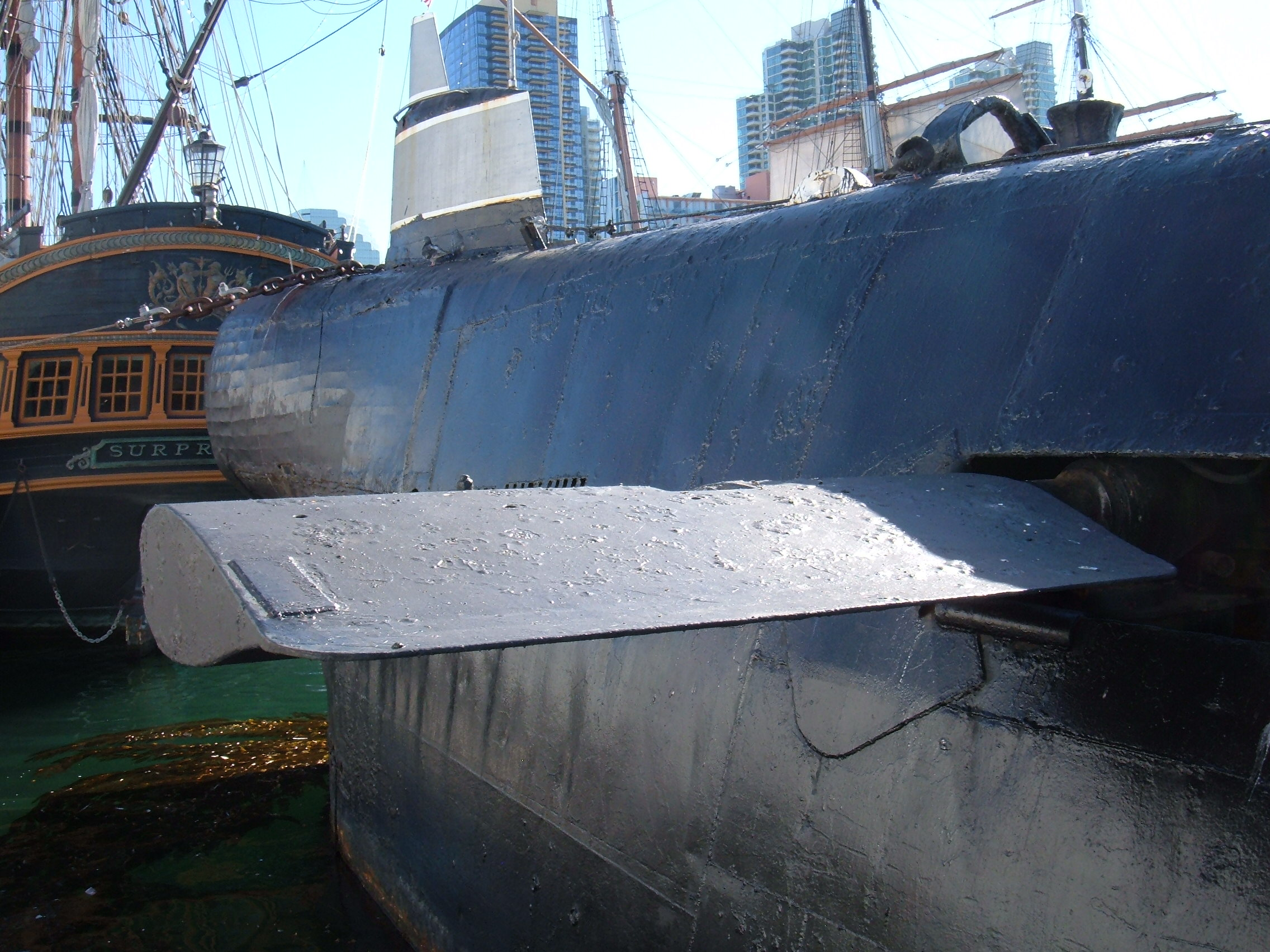 The port bow plane of the submarine B-39, part of the Maritime Museum of San Diego in San Diego, California.